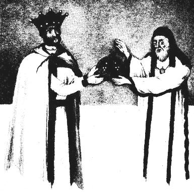 King Alexander I, renovator of the Svetitskhoveli cathedral and Catholicos Elioz. A miniature by Rossi based on the 17th century fresco from Svetitskhoveli (1830s). The fresco was largely destroyed when the cathedral walls were whitewashed by the Russian church authorities in the late 1830s